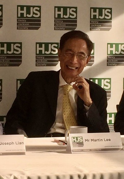 Martin Chu-ming Lee at a seminar jointly hosted in London by Henry Jackson Society and Hong Kong Watch.